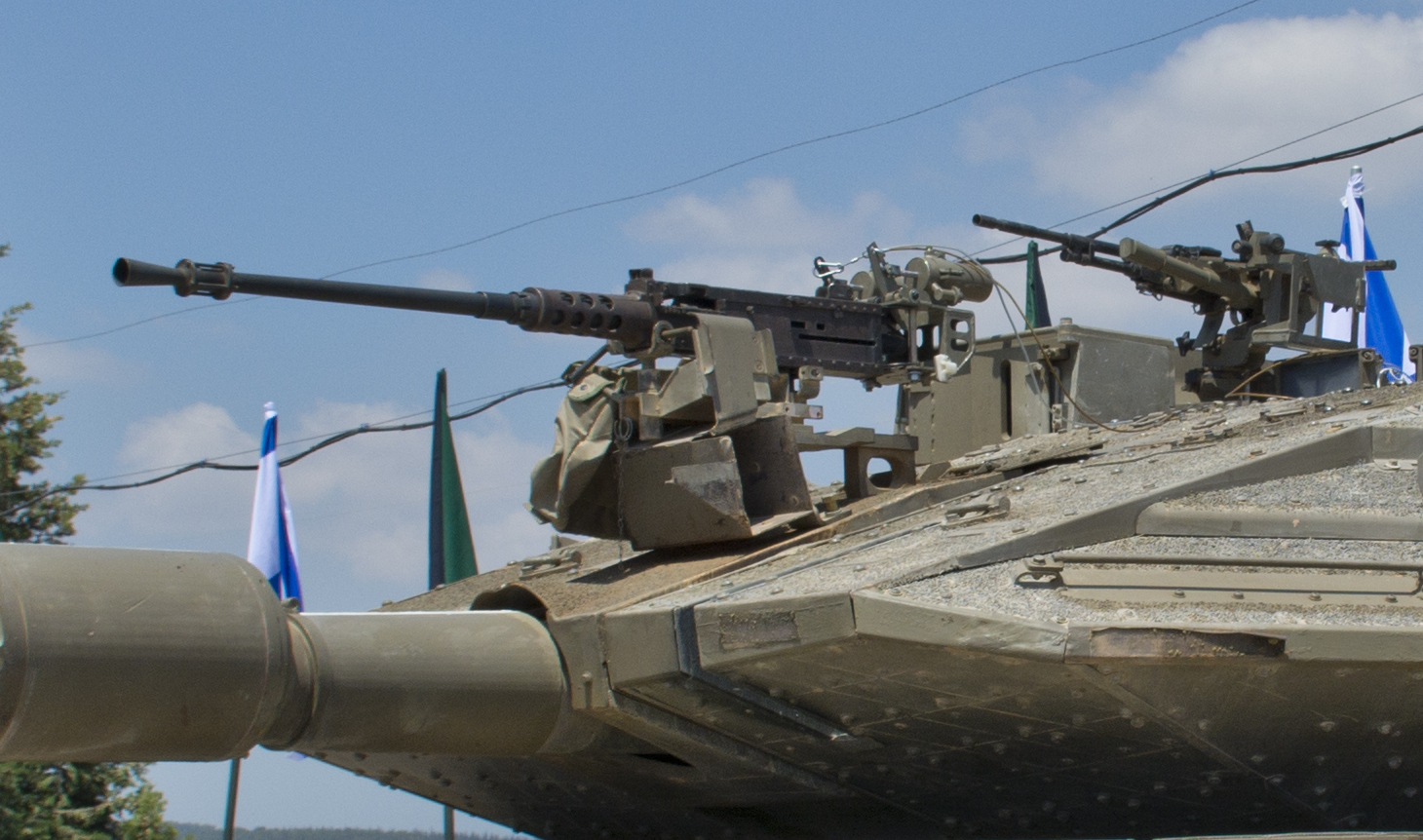 M2 Browning and FN Mag on a Merkava Mk 4M with Windbreaker (Trophy APS), Israel 68th Independence Day, Ground Army Exhibition, Yad LaShiryon, Israel